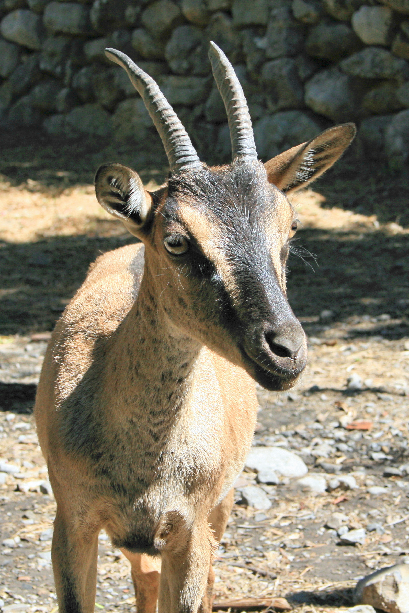 Kri-kri (Capra aegagrus creticus) in the Samariá Gorge national park on the island of Crete